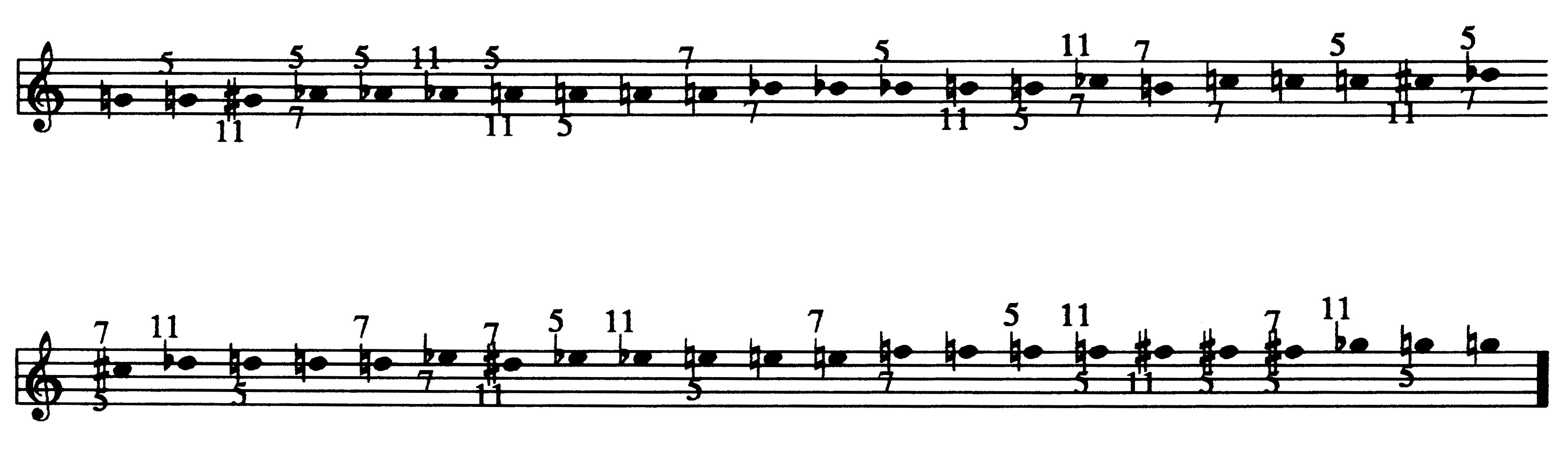 transcription of the just intonation system of composer harry partch as a scale